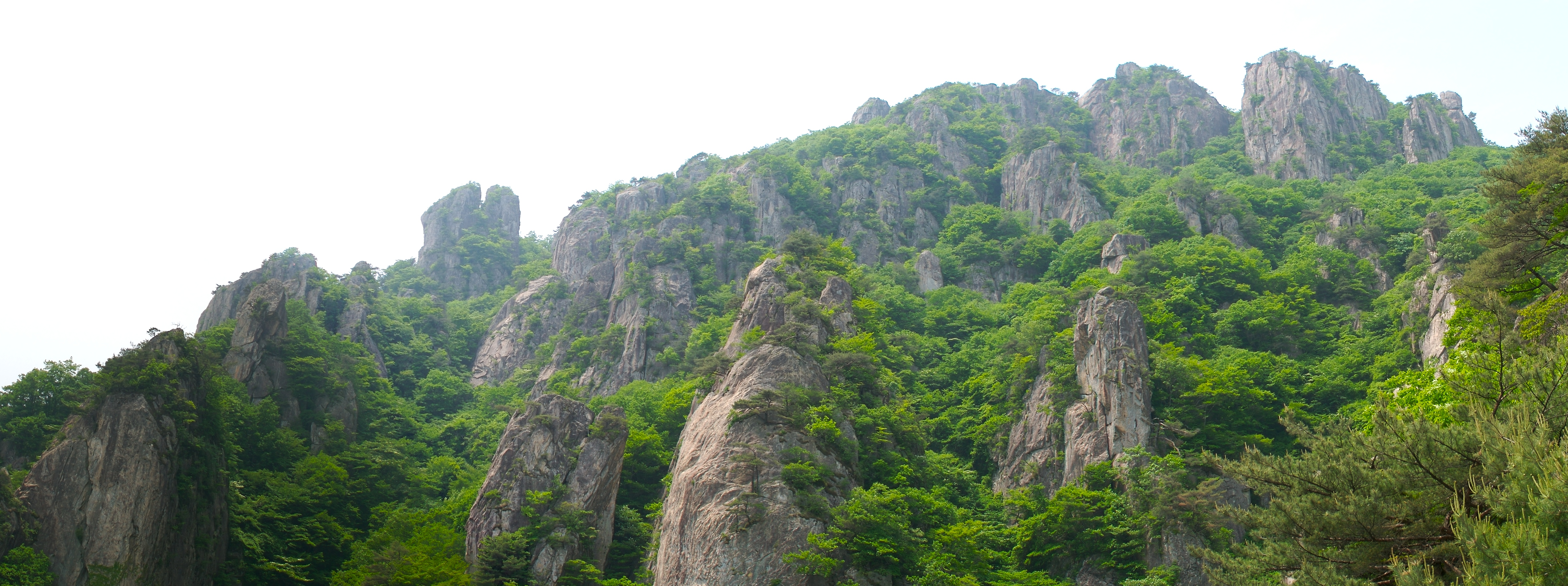 Panorama of Chilseongbong at Daedunsan, a mountain in North Jeolla Province, South Korea. It was stitched out of four photographs taken from the Chilseongbong observation deck.